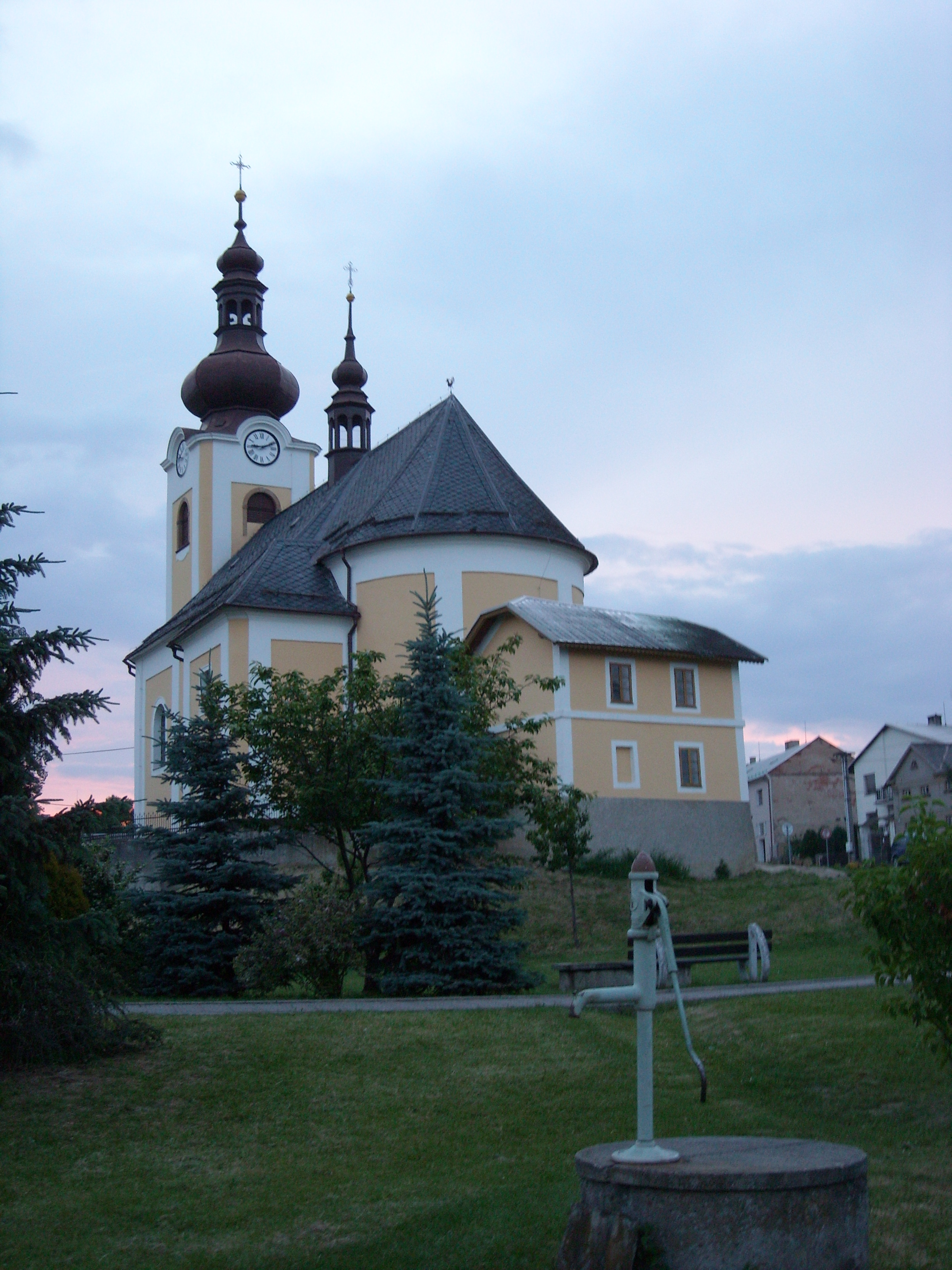 church